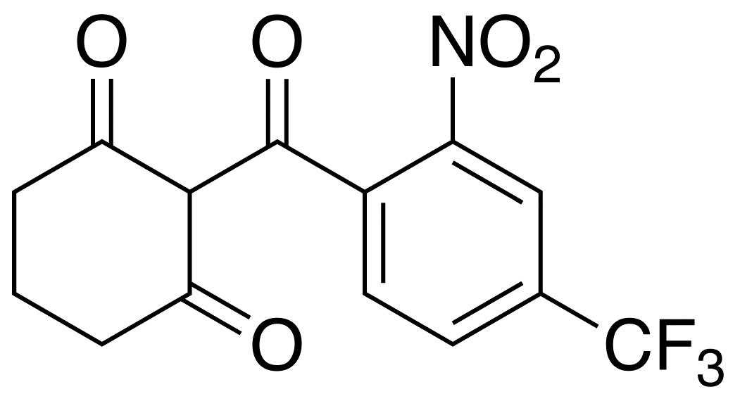 Skeletal structure of nitisinone